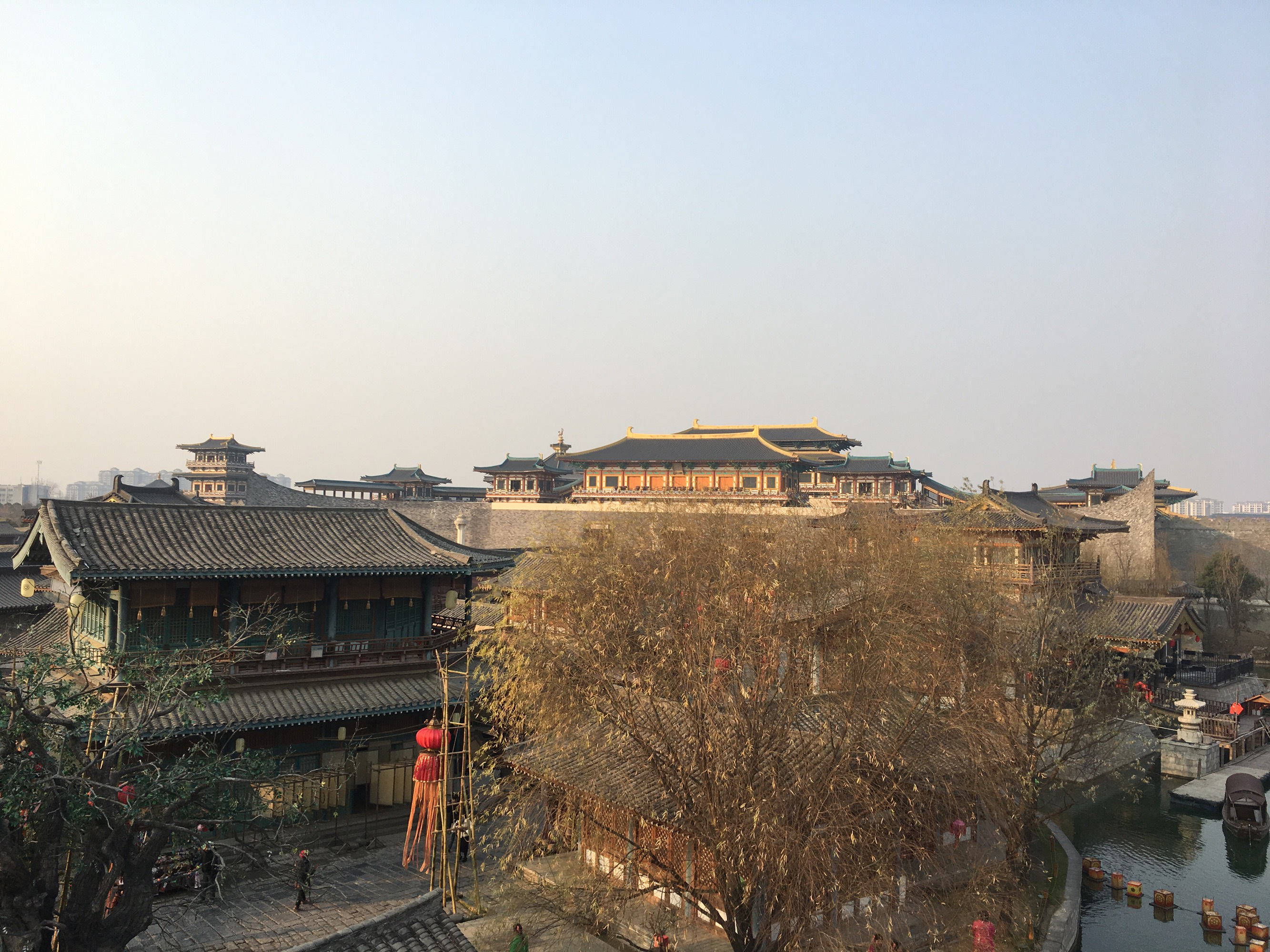 The Tang dynasty city film and television base in Xiangyang, Hubei, China.